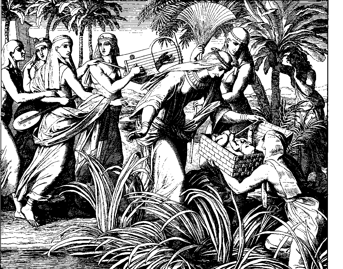 Woodcut for "Die Bibel in Bildern", 1860.